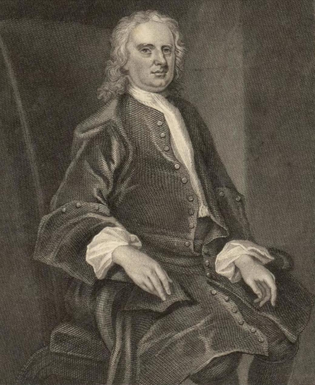 A portrait from the Welsh Portrait Collection at the National Library of Wales. Depicted person: Isaac Newton – influential British physicist and mathematician